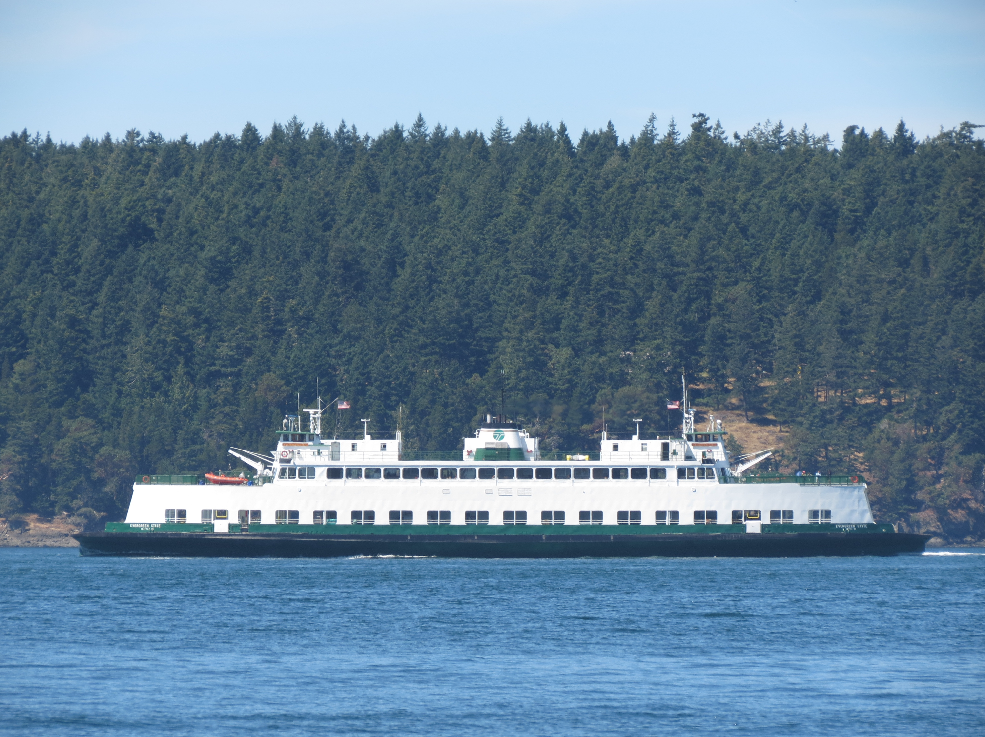 Evergreen State in Upright Channel heading to Friday Harbor. Photo taken from Odlin County Park on Lopez Island.